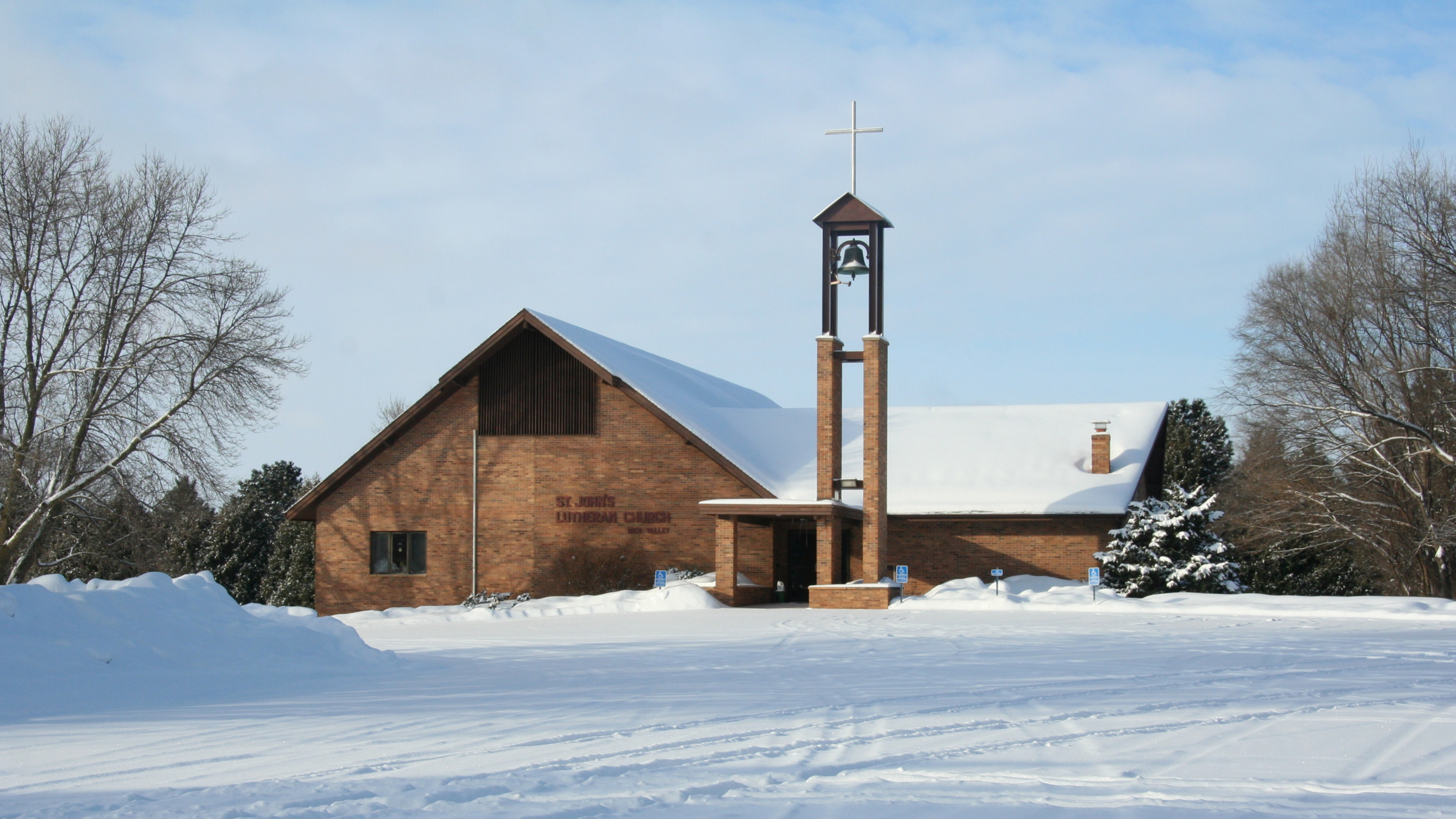 Saint John's Lutheran Church (Lutheran Church Missouri Synod) in Rich Valley, near Rosemount, Minnesota